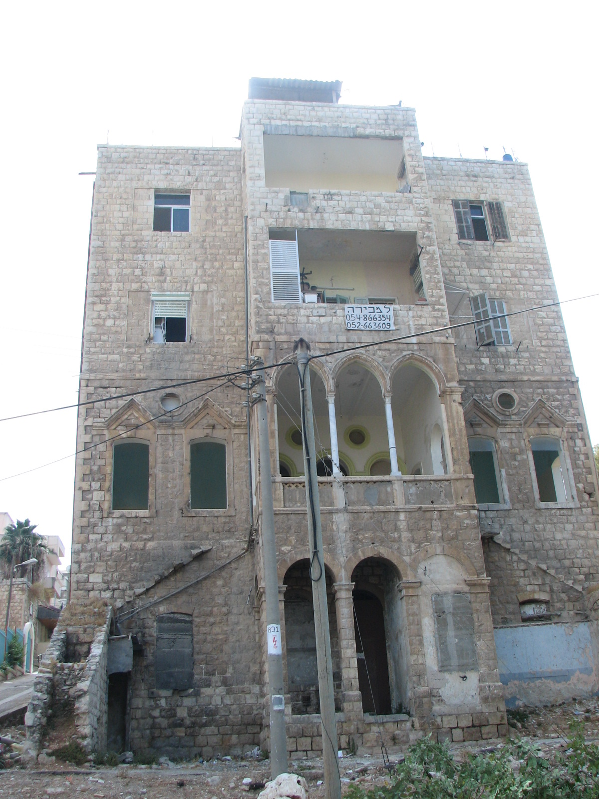 An impressive house in Wadi Salib, HFA, with a "For Sale" sign.